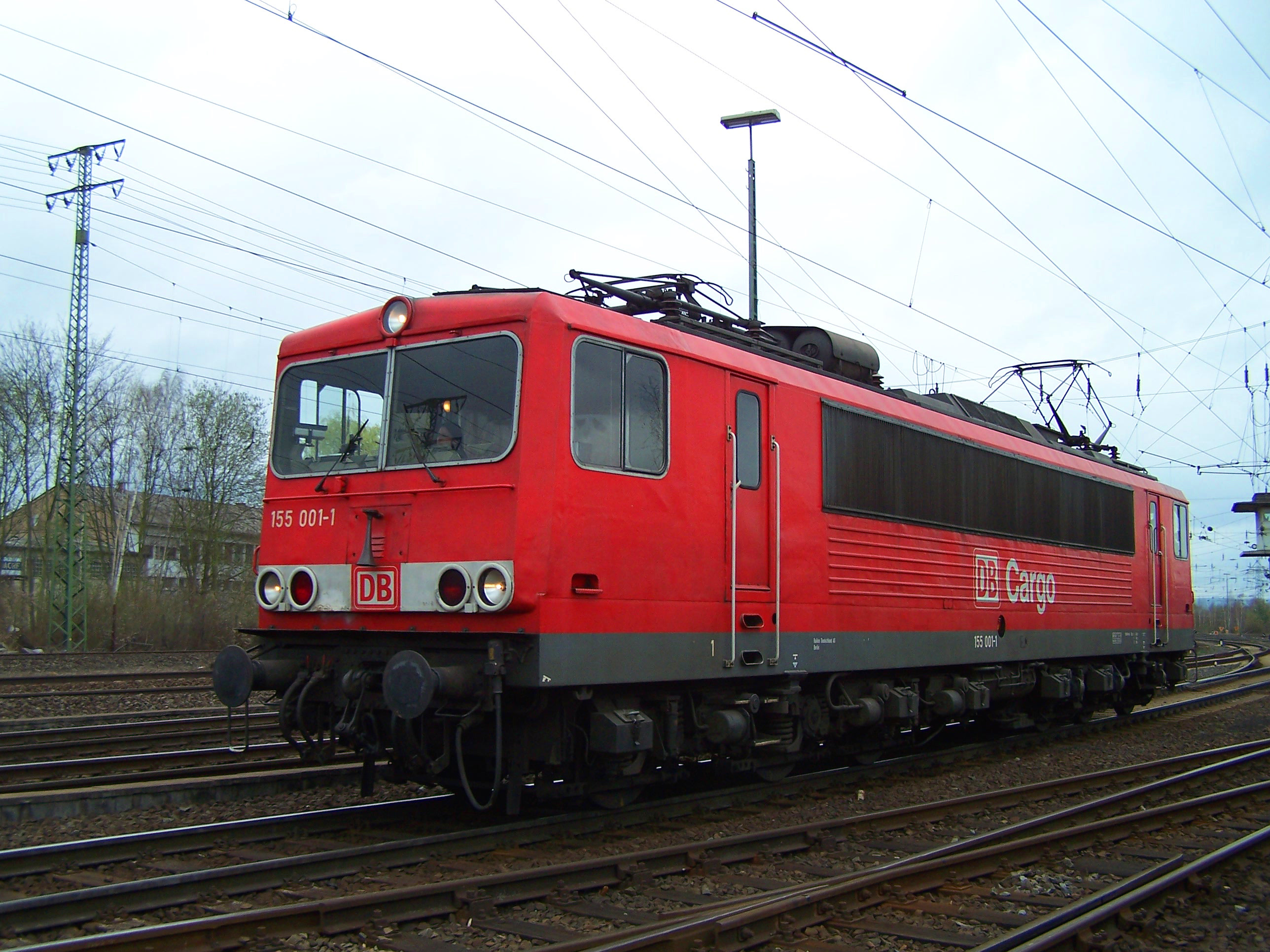 DB Cargo 155 001 during a locomotive parade at the DB Museum in Koblenz-Lützel, a local branch of the Transport Museum in Nuremberg